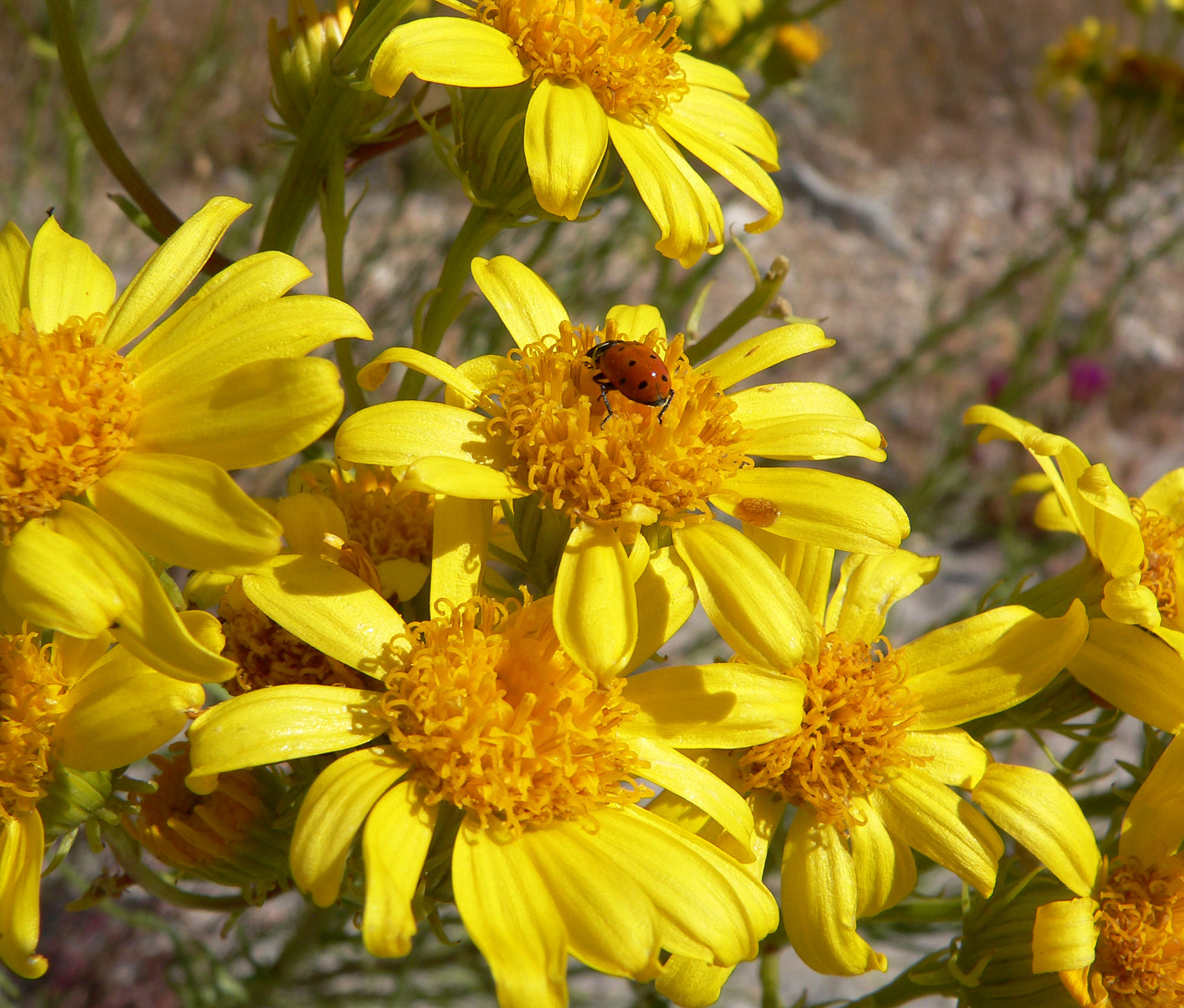 Senecio flaccidus var. monoensis in the canyon at the west end of Cheyenne Ave, Las Vegas, Nevada (Lone Mountain area)